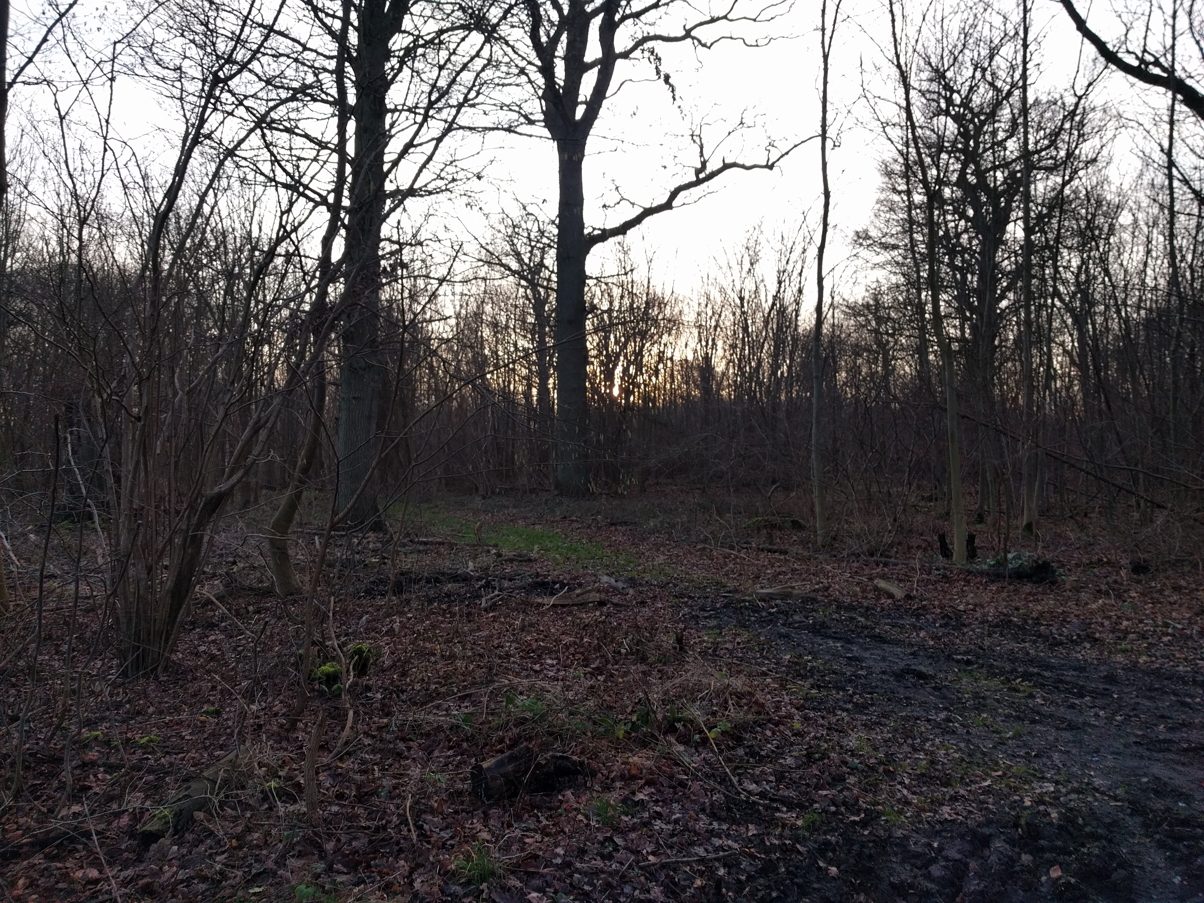 The Forest "Fiskebæk Skov" on the danish island Falster.